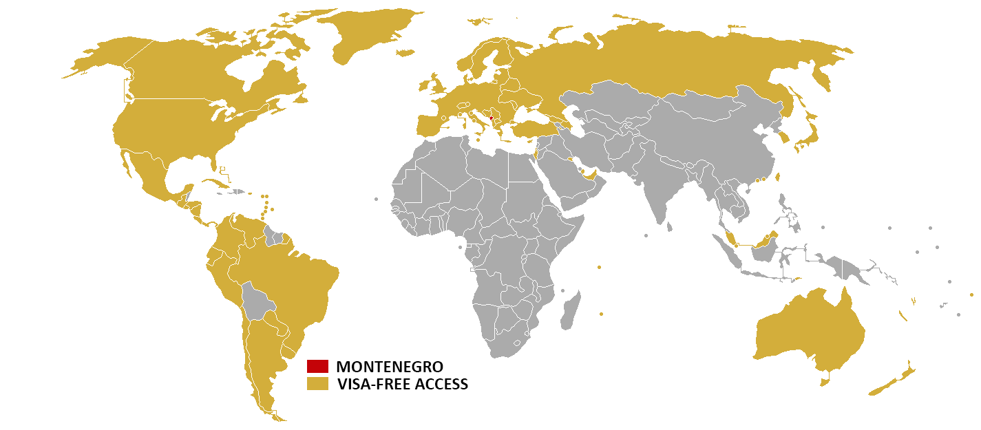 Visa policy of Montenegro Montenegro Visa-free access